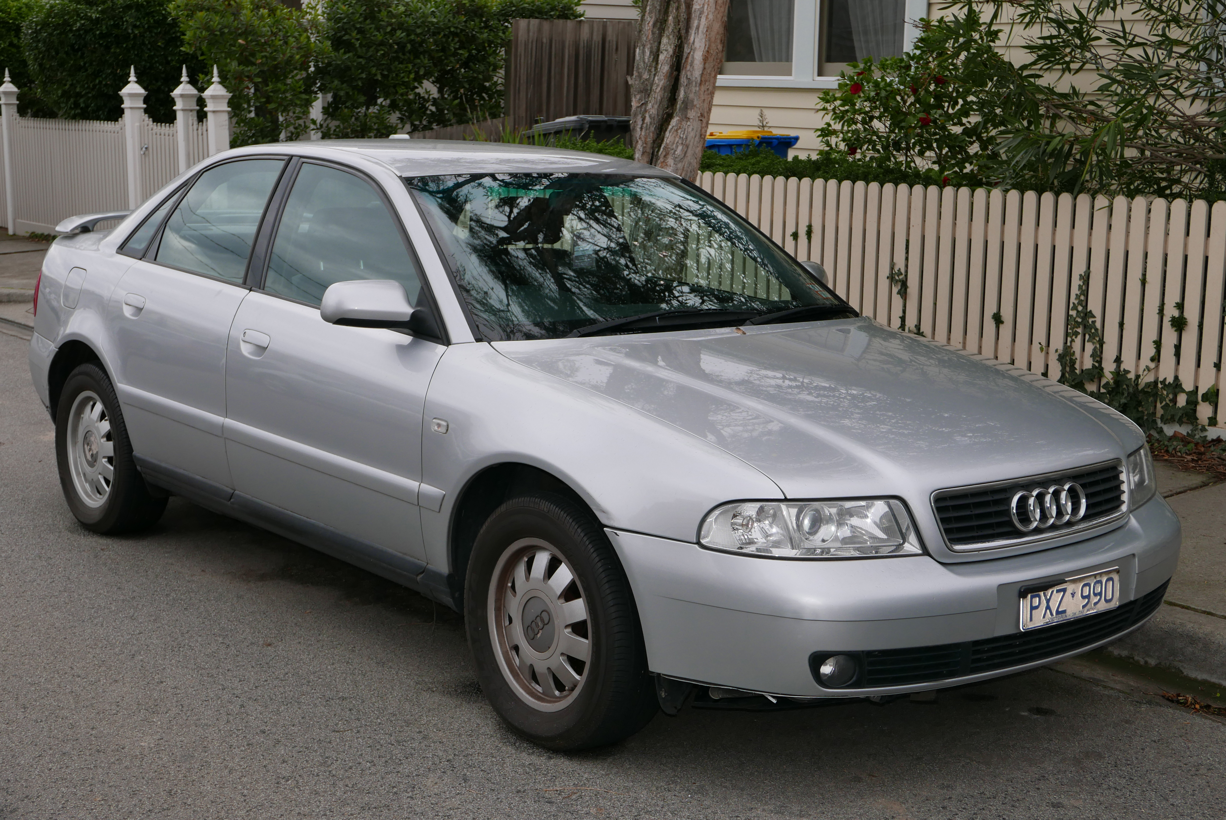 1999 Audi A4 (8D MY99) 1.8 sedan. Photographed in Hawthorn, Victoria, Australia. Vehicle registration enquiry results Jurisdiction Victoria Registration PXZ990 Chassis code WAUZZZ8DZYA039777 Engine code APT039790 Compliance date 1999-11 Year of manufacture 1999